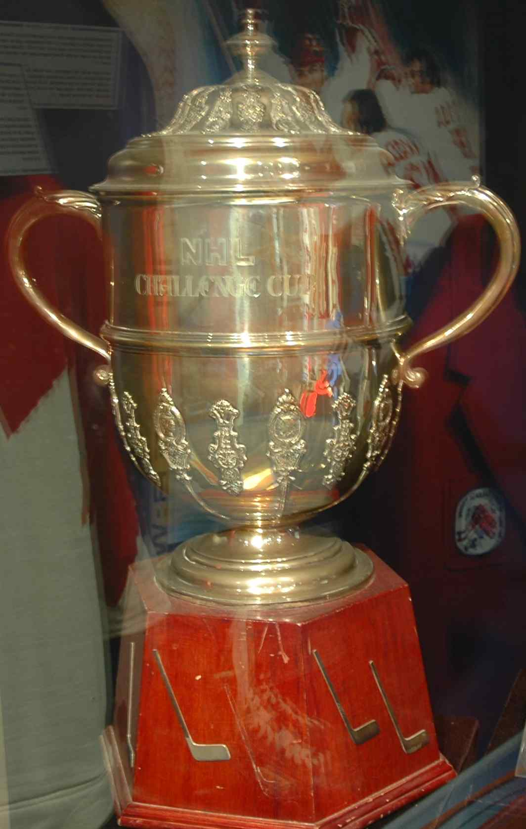 Challenge Cup 1979. Event replaced All-Star Game in 1979